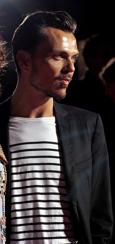 Matthew Williamson at the Factory Girl London premiere